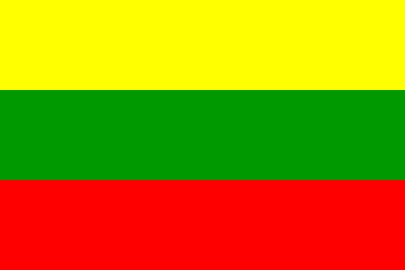 National flag of Lithuania from 1918 to 1940 - ratio 2:3